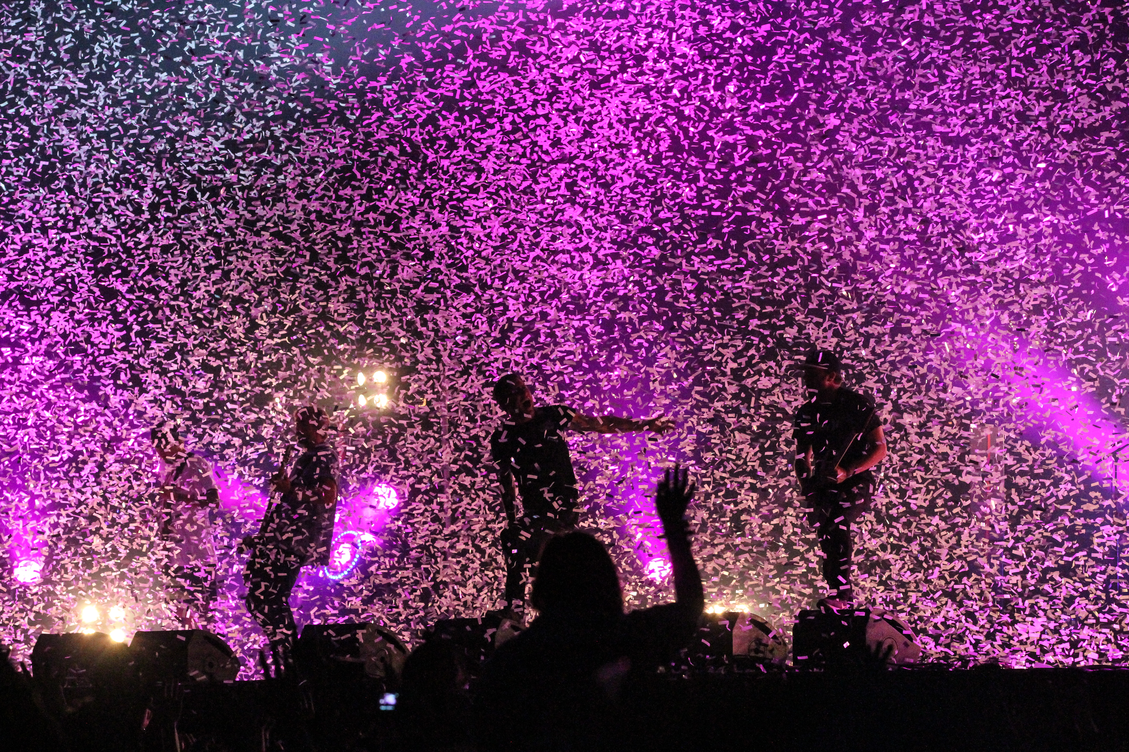 Parkway Drive performing at With Full Force Festival 2013